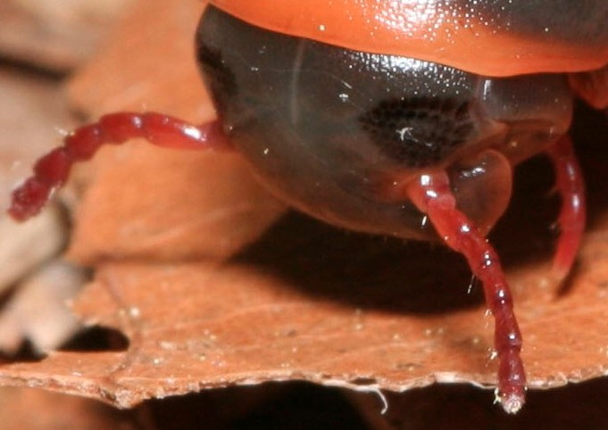 North American millipede, head with visible ocelli